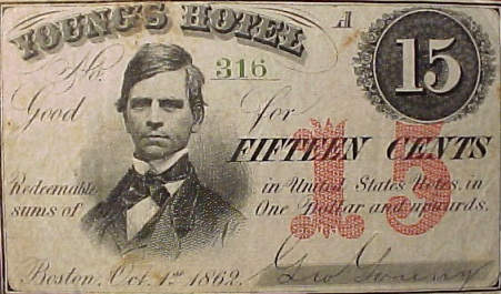 "Private Issue Fractional Currency: Fifteen Cents, Boston, Oct. 4, 1862, issued by YOUNG'S HOTEL/15 in red on blank reverse. 97 x 57mm. " --(catalog of Malter Galleries, "World Coins and Paper Currency Auction," Monday, June 10th, 2002)